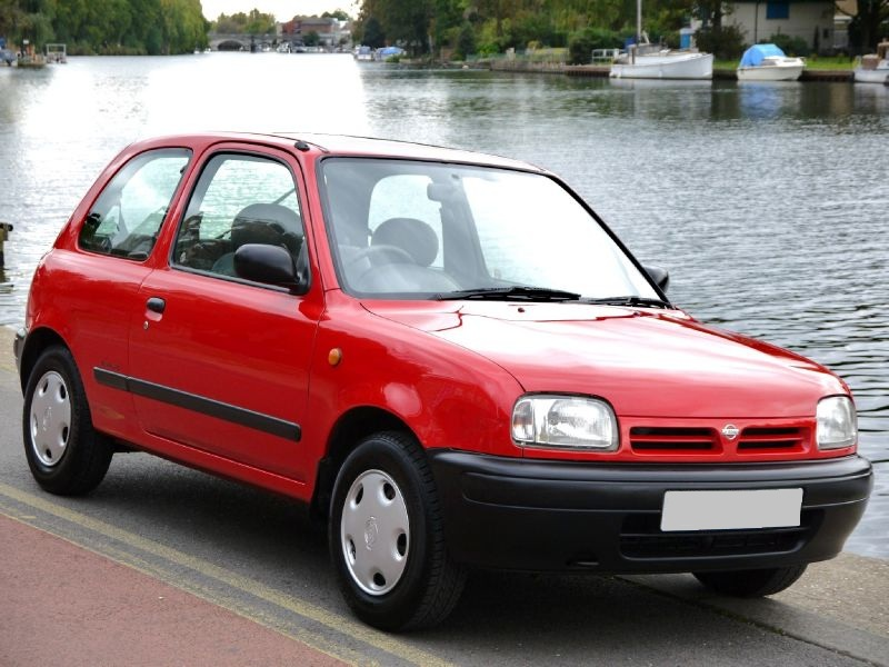 Nissan Micra (K11) ) (1993 - 2003)